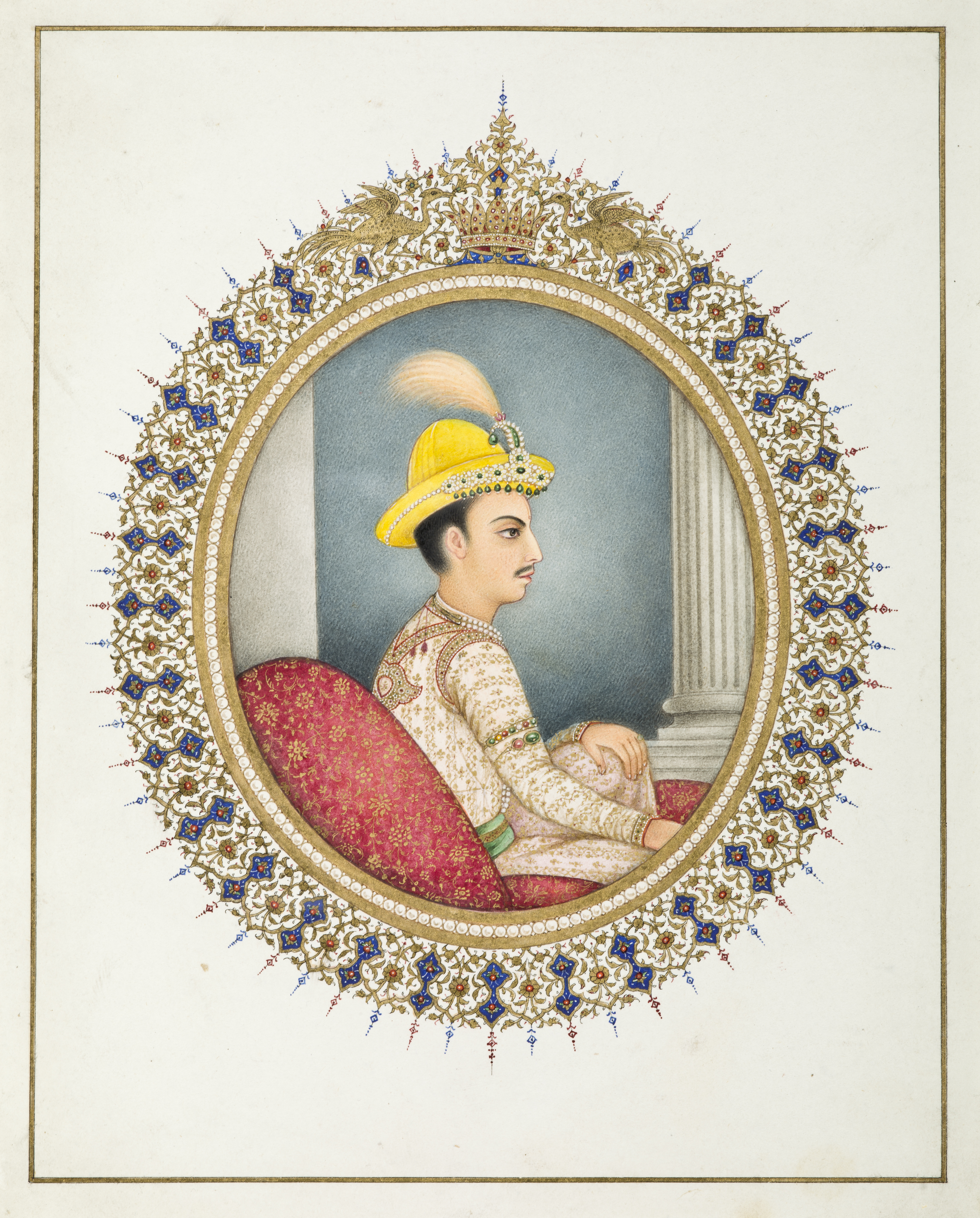 Nepal, circa 1815 Drawings; watercolors Opaque watercolor and gold on paper Indian Art Special Purpose Fund (M.76.129) South and Southeast Asian Art File:King Girvan Yuddhavikram Shah (1797-1816) LACMA M.76.129.jpg File:King Girvan Yuddhavikram Shah (1797-1816) (restoration).jpg